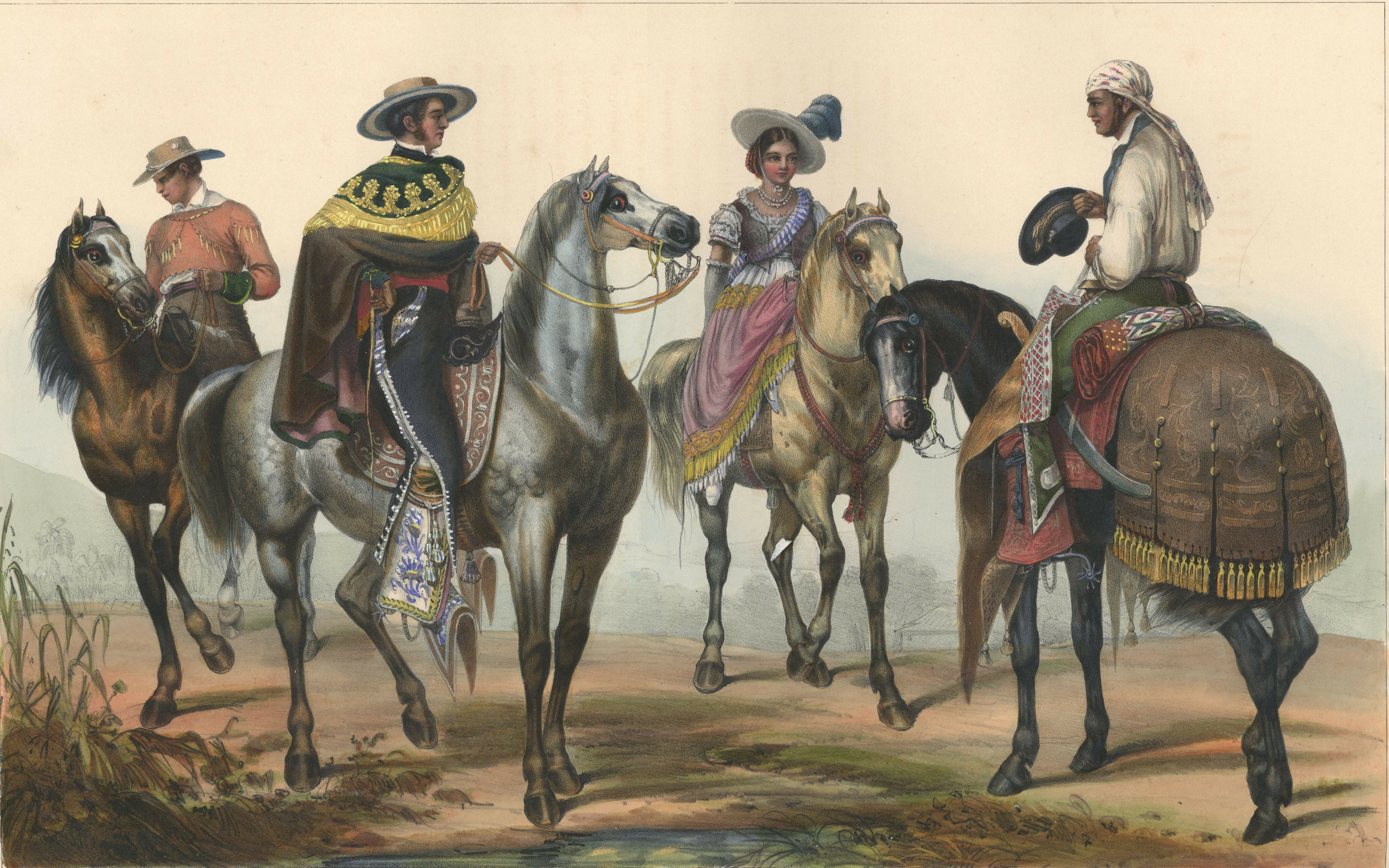 El Hacendero y su Mayordomo. Hand-colored lithograph highlighted with gum arabic. Original size (neat lines): 44.1×28 cm.